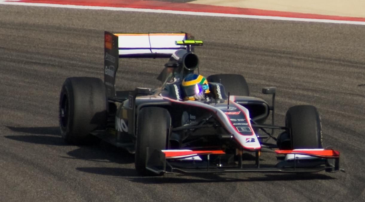 Bruno Senna driving for Hispania Racing at the 2010 Bahrain Grand Prix.